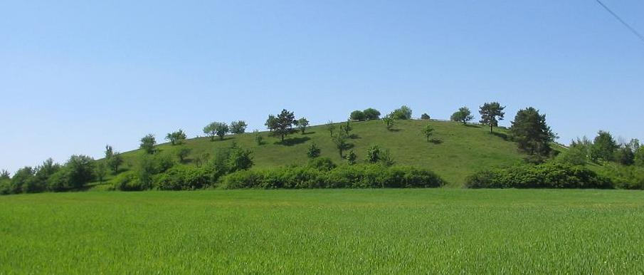 Kleiner Rummelsberg (hill) nearby Brodowin. It is not sure, that the hill will be a Drumlin. The village Brodowin ist a part of the municipality Chorin in the District Barnim, state Brandenburg, Germany.